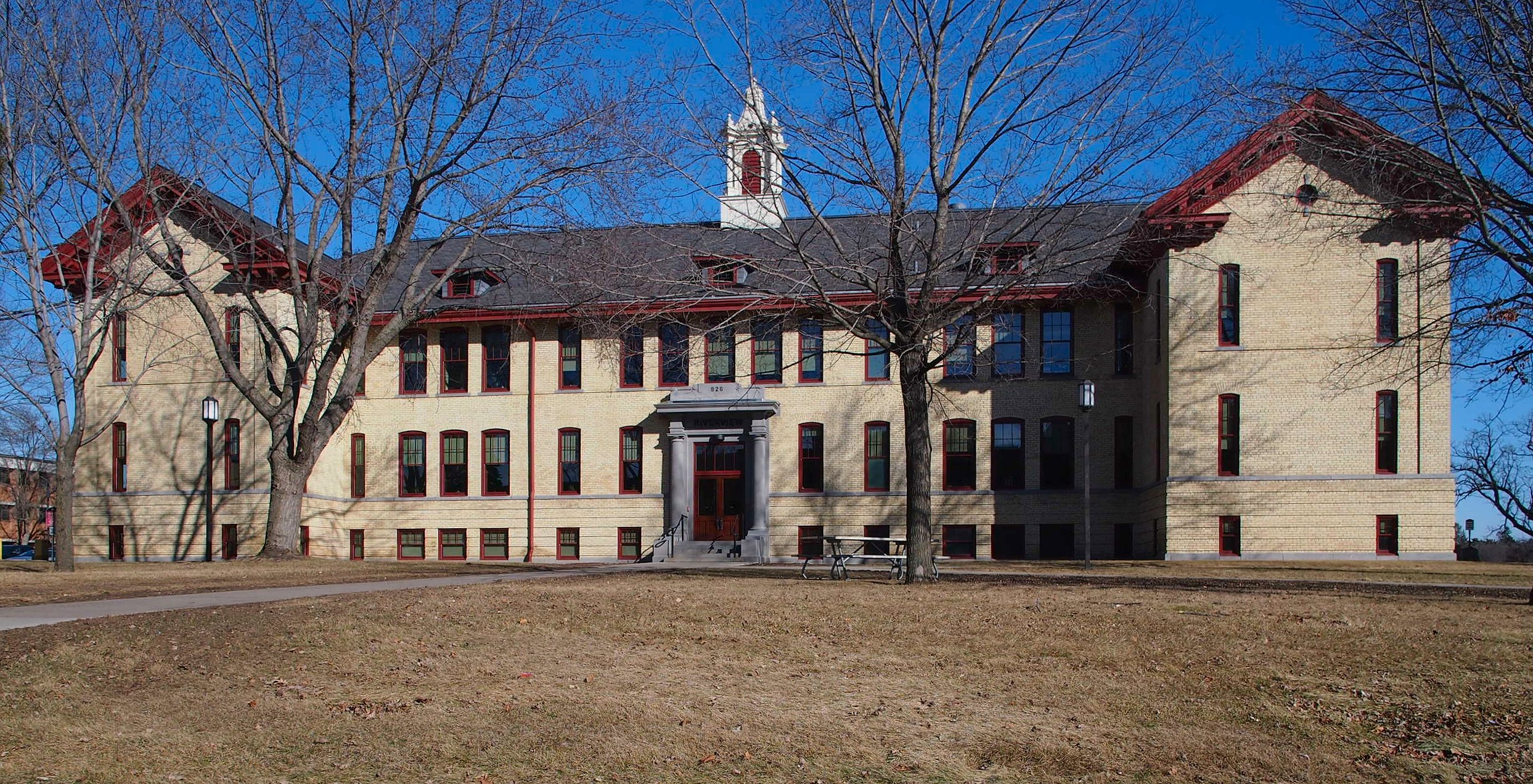 Riverview Hall (formerly the Model School of St Cloud State Normal School), St Cloud State University, 826 1st Ave S, St Cloud, Minnesota, USA. Viewed from the west.